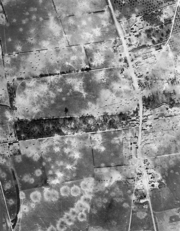 Vertical photographic-reconnaissance aerial of Cagny, south-east of Caen, France following a daylight attack on German fortified positions by aircraft of Bomber Command on the morning of 18 July 1944, in support of Operation GOODWOOD. 650 tons of bombs were dropped on this strongly-defended village in ten minutes, most of them fitted with instantaneous fuzes so as to minimise cratering which might impede the British armoured advance.